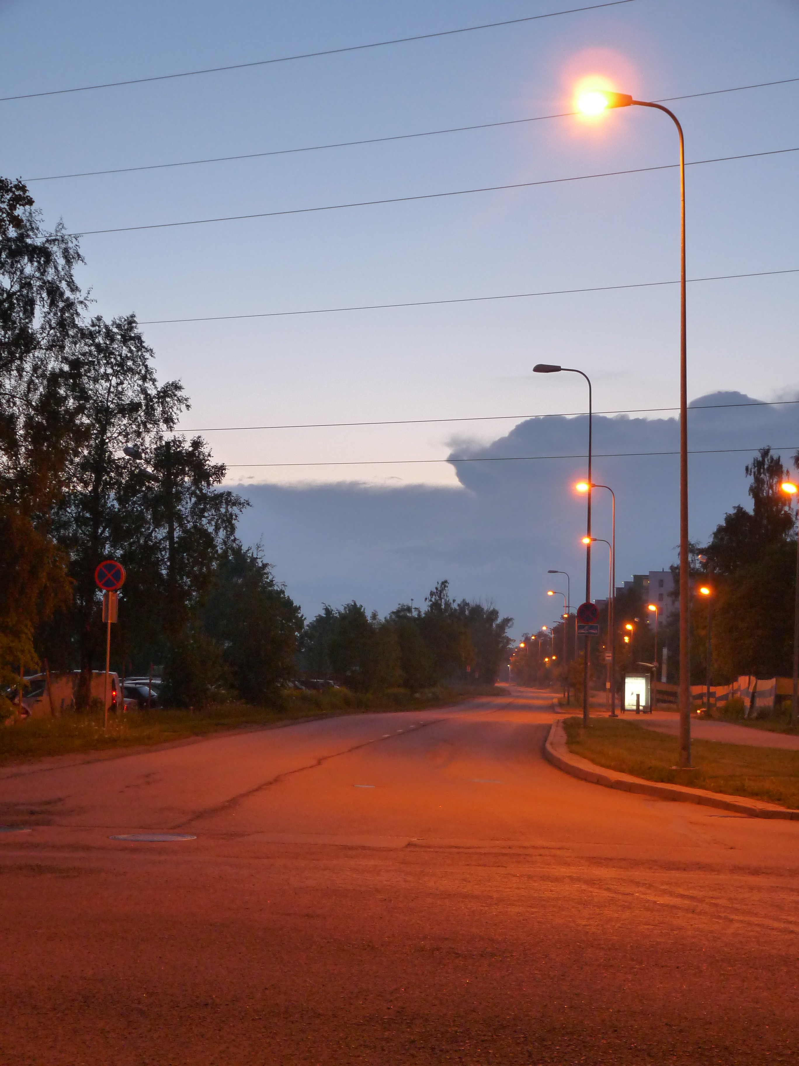 Vana-Kuuli street in Tallinn, Estonia